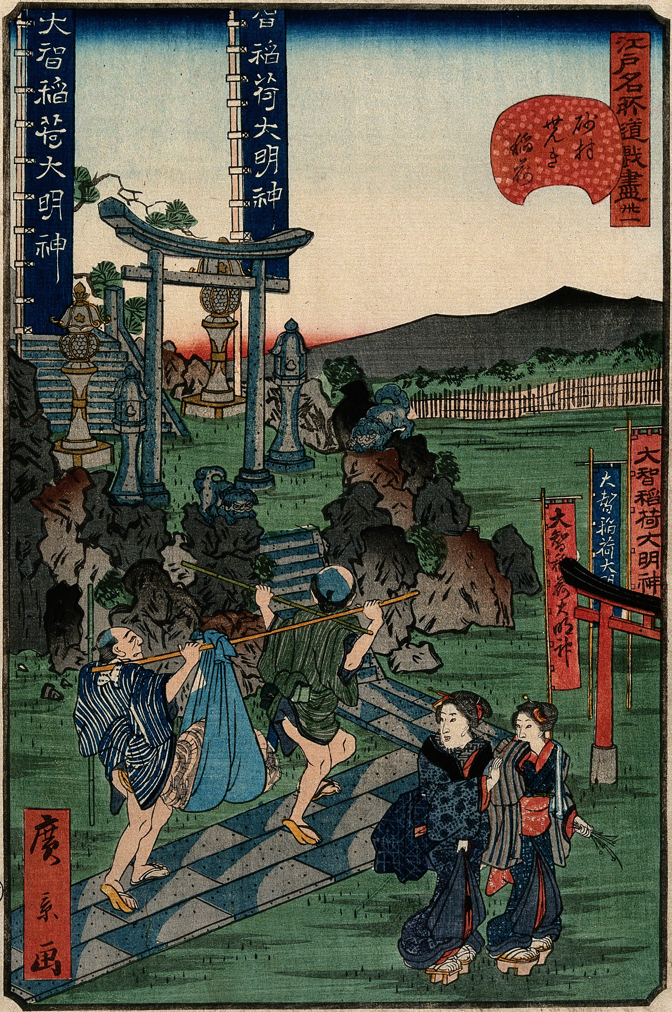 A man is helped to carry his enlarged scrotum - A man with filarial elephantiasis, is helped by a friend to carry his enlarged scrotum supported with a sling, approaches a temple shrine. Two women are shocked at the sight.Iconographic Collections Keywords: Hiroshige Utagawa; Scrotum; Help; Elephantiasis, Filarial; Japanese; Japan; Temple Shrine